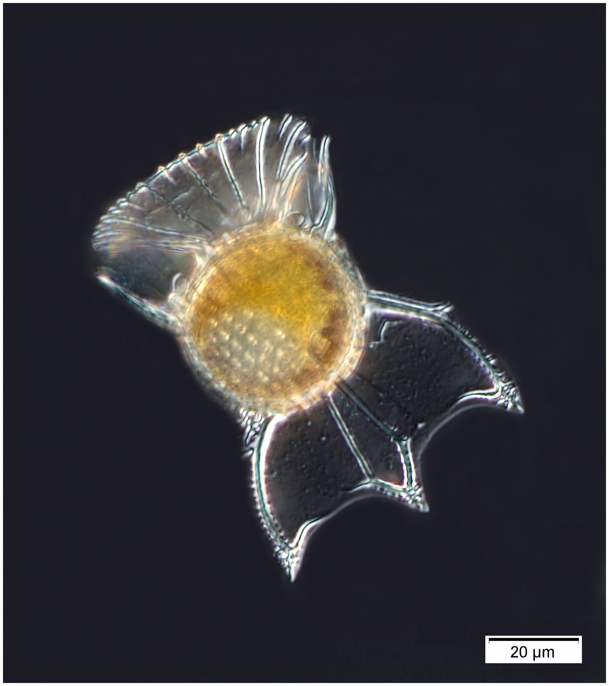 Ornithocercus heteroporus (probably). Image ID: fis00866, NOAA's Fisheries Collection Credit: Courtesy of Dr. John R. Dolan, Laboratoire d'Oceanographique de Villefranche; Observatoire Oceanologique de Villefrance-sur-Mer